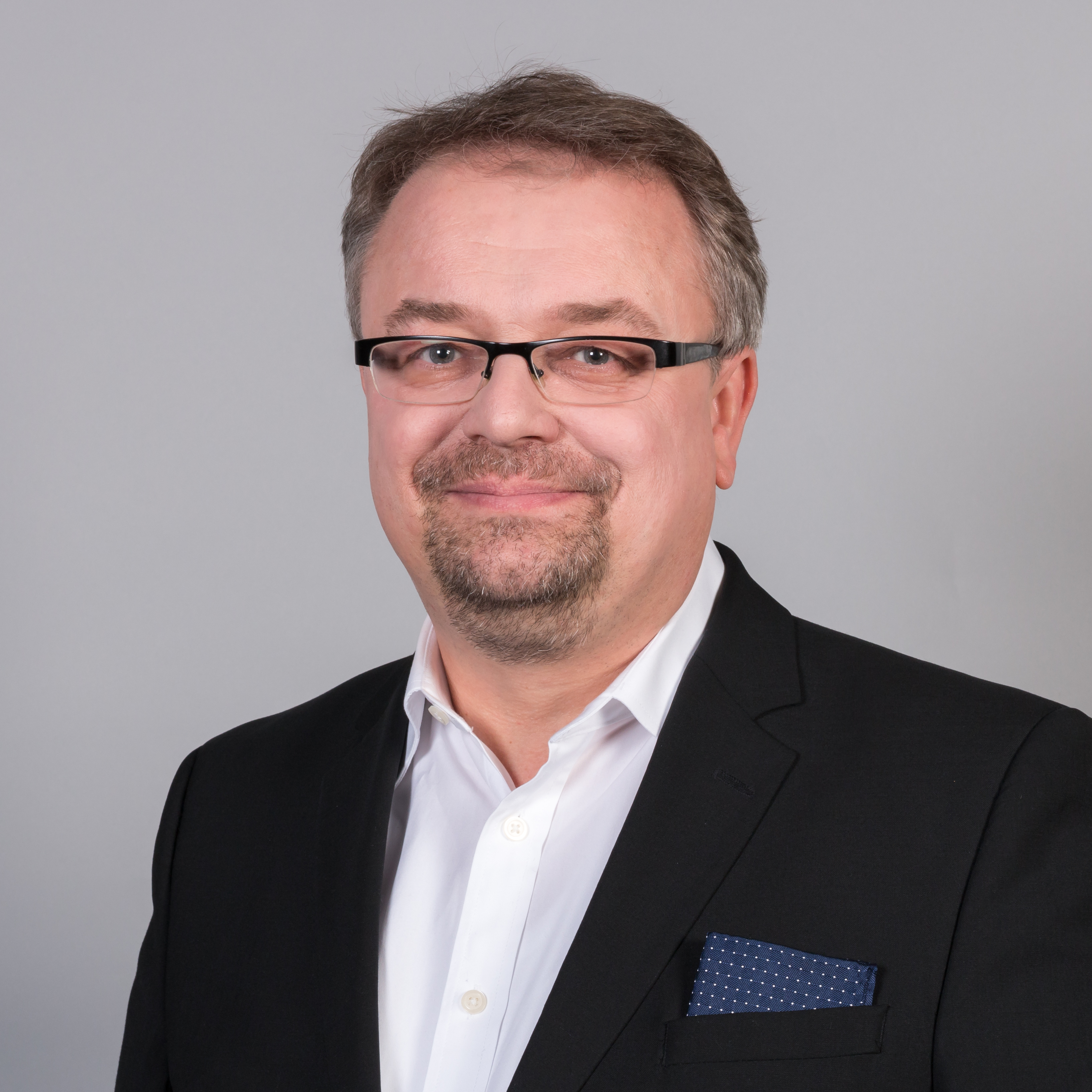 Jens Geier, SPD, German Member of the European Parliament